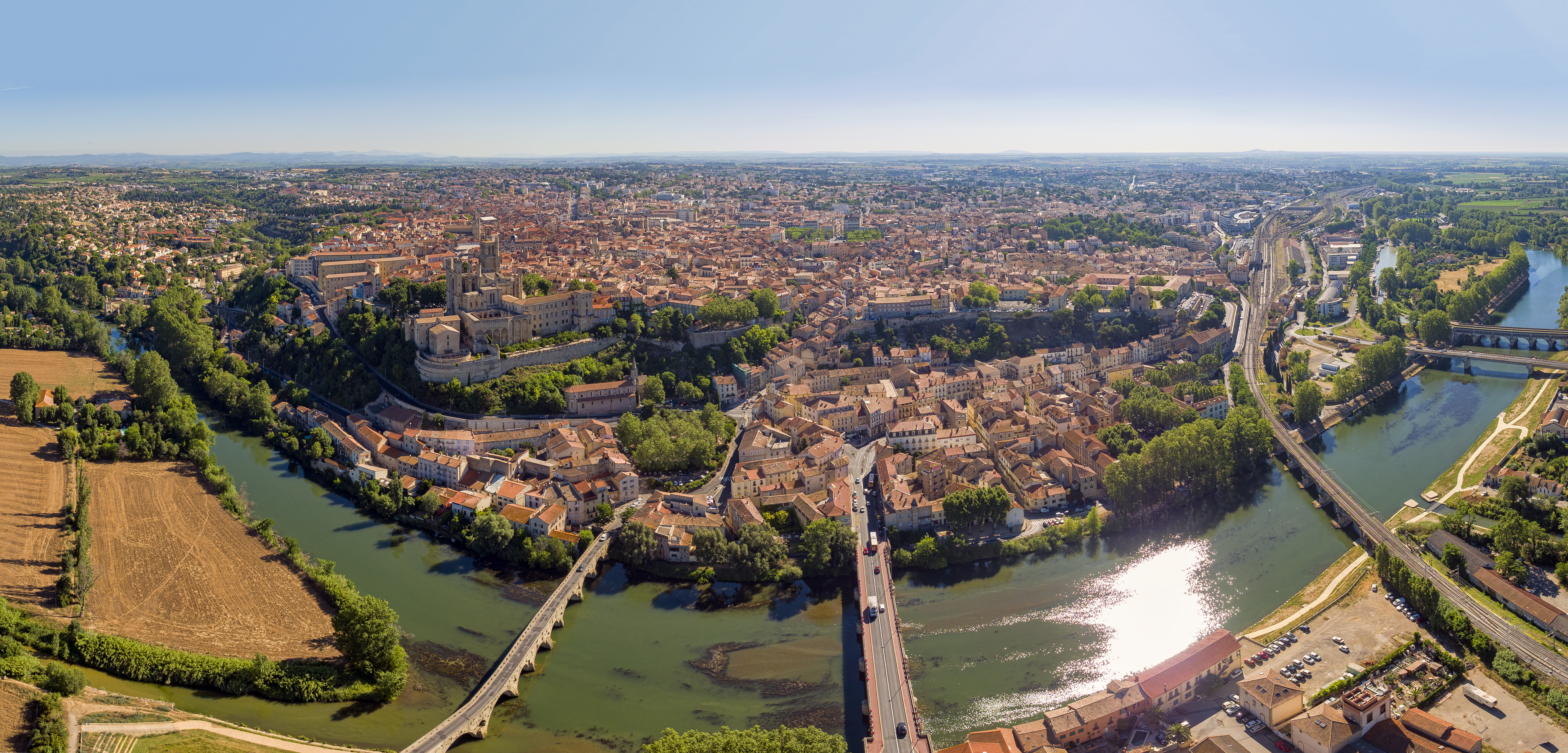 Béziers France 2016